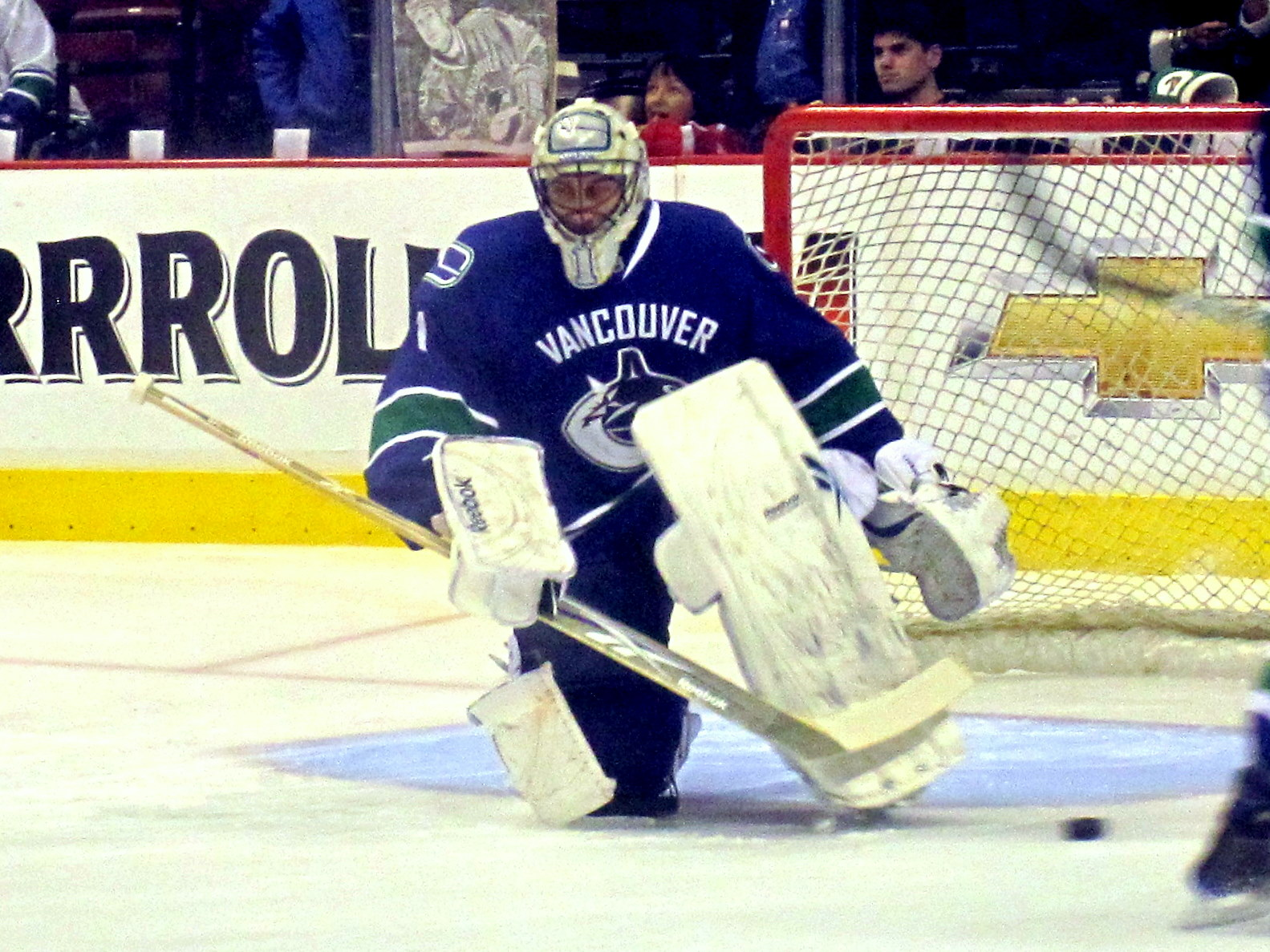 Vancouver Canucks goaltender Roberto Luongo during a game against the New York Islanders on March 16, 2010, in Vancouver.